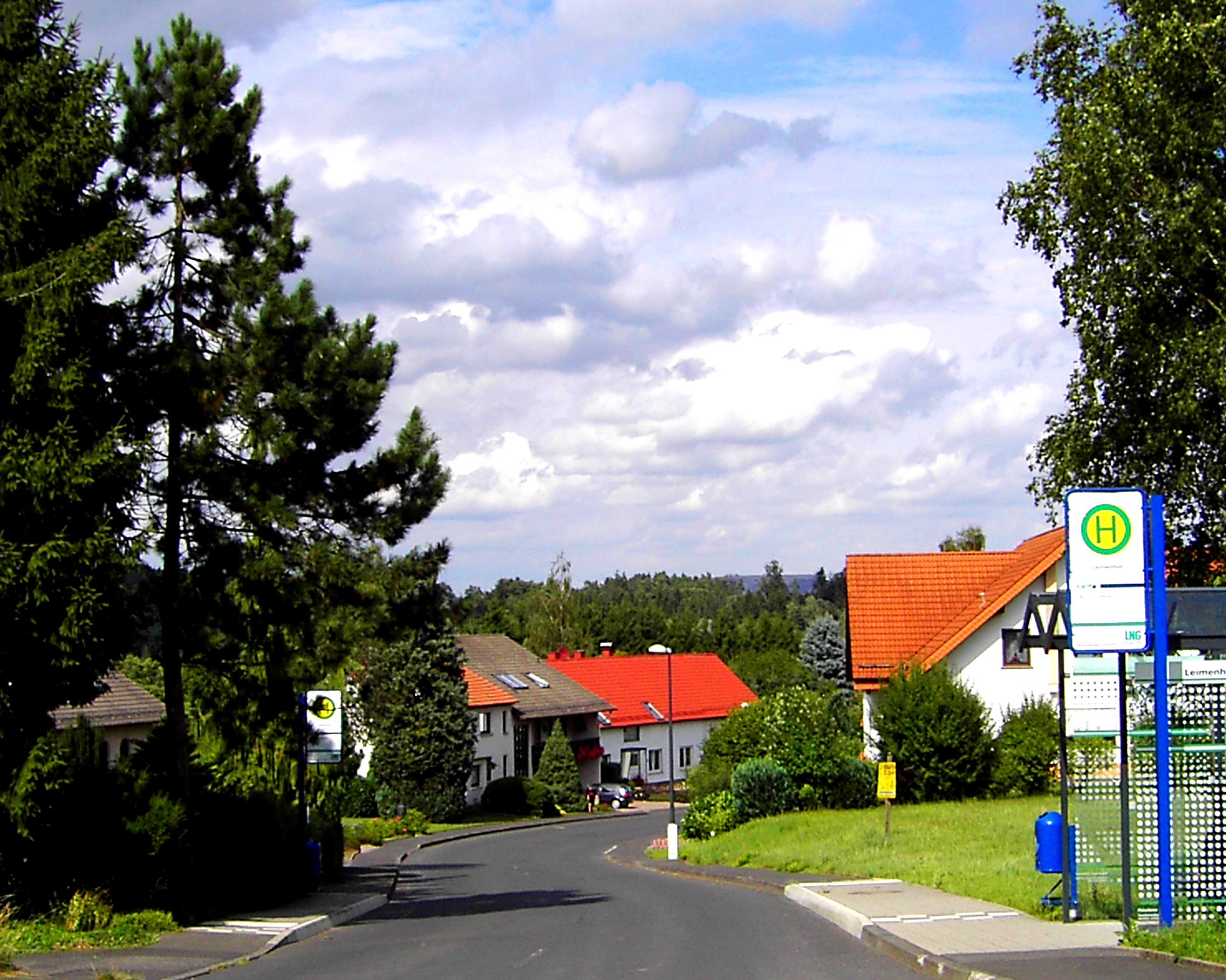 Leimenhof (Landkreis Fulda), Germany